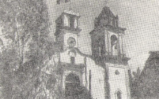 This is a picture taken in 1966 of Main Church Santa Maria de la Asunción in Atoyac de Alvarez